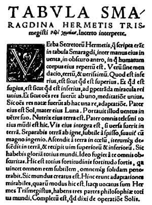 The original edition of the Emerald Tablet, extracted from De Alchimia, Chrysogonus Polydorus, Nuremberg 1541